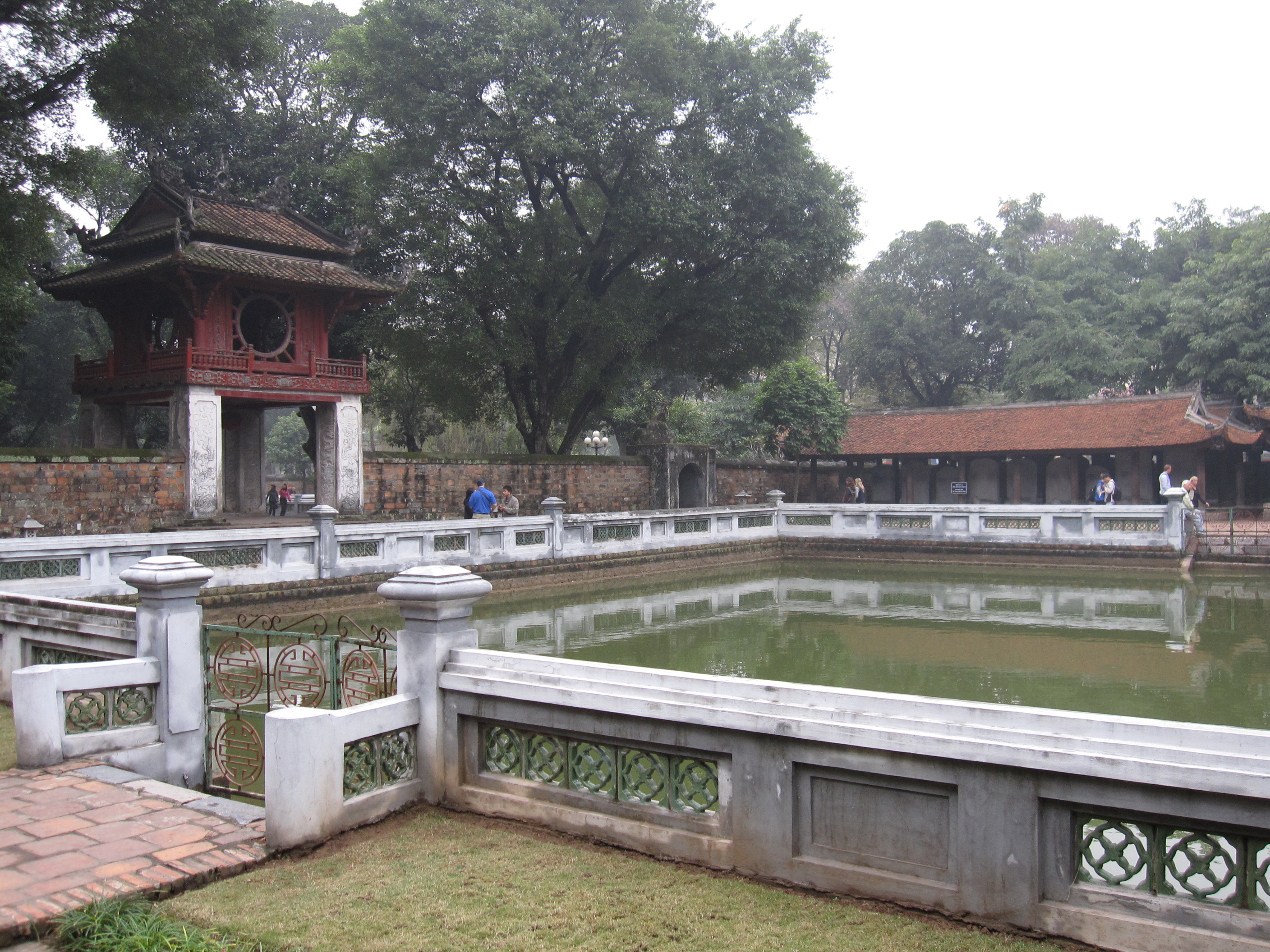 Well of Heavenly Clarity in the third courtyard of the Temple of Literature in Hanoi, Vietnam.